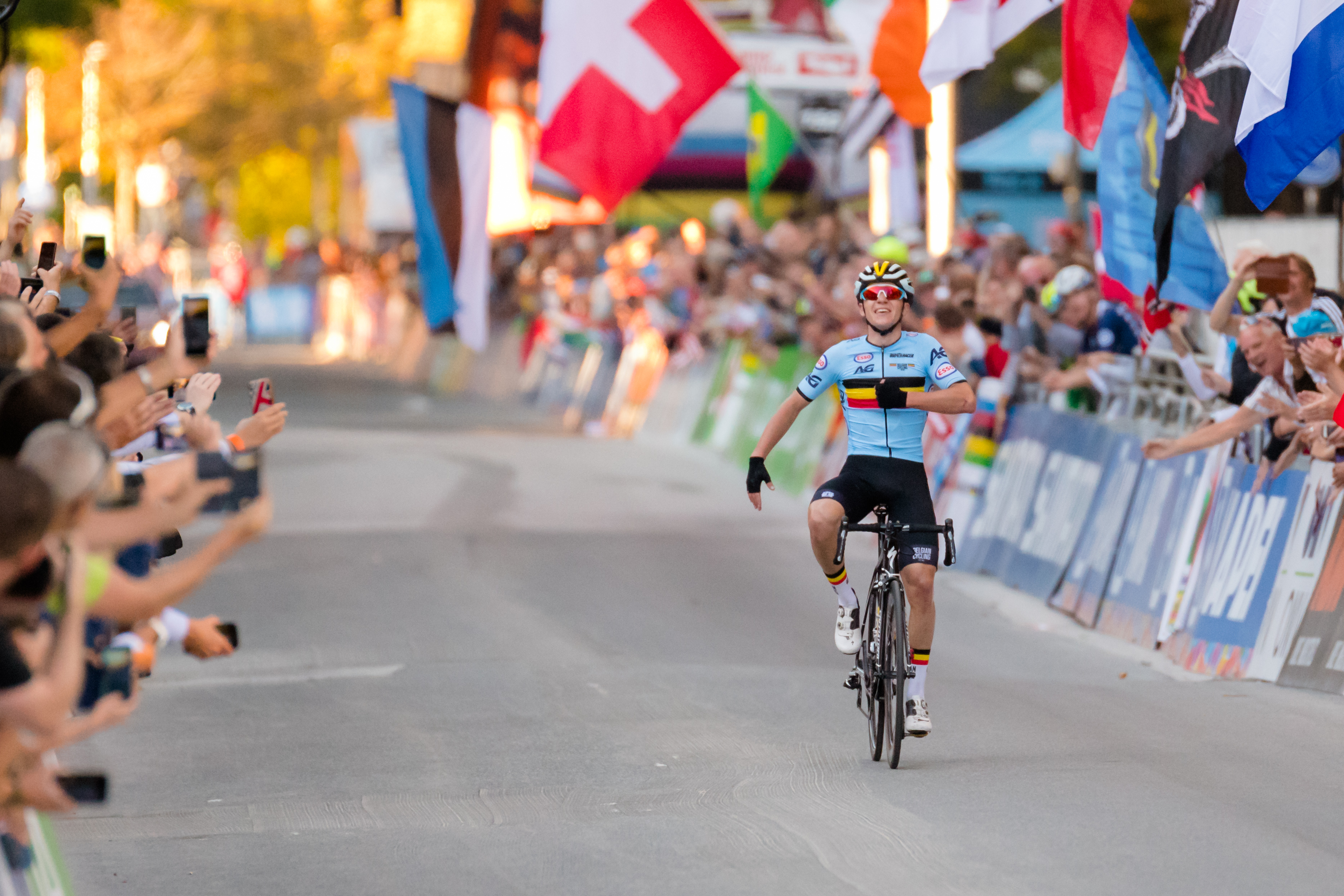 2018 UCI Road World Championships Innsbruck/Tirol Men Juniors Road Racel. Picture shows: Remco Evenepoel of Belgium